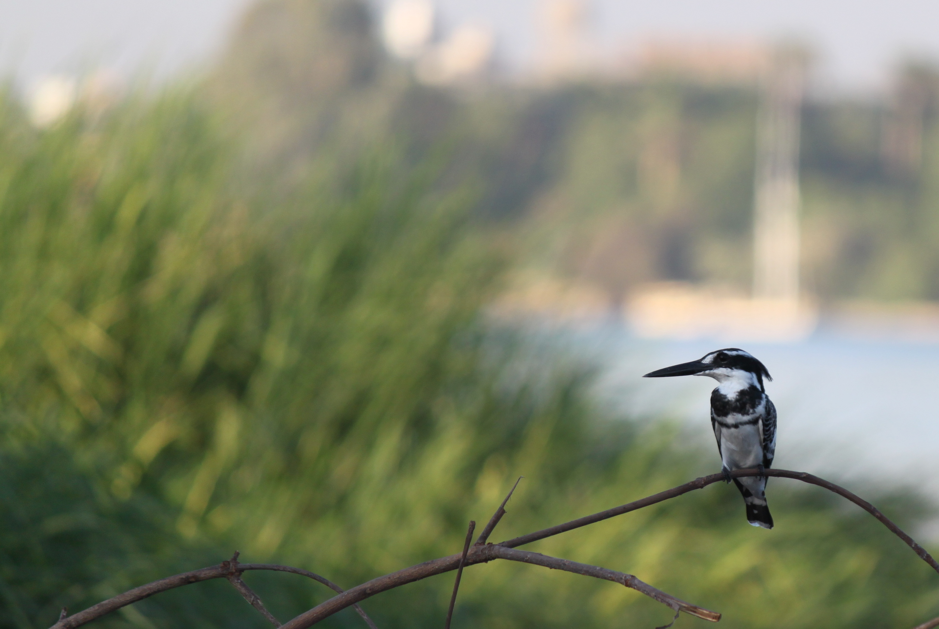 Pied Kingfisher on the Nile near Luxor, Egypt